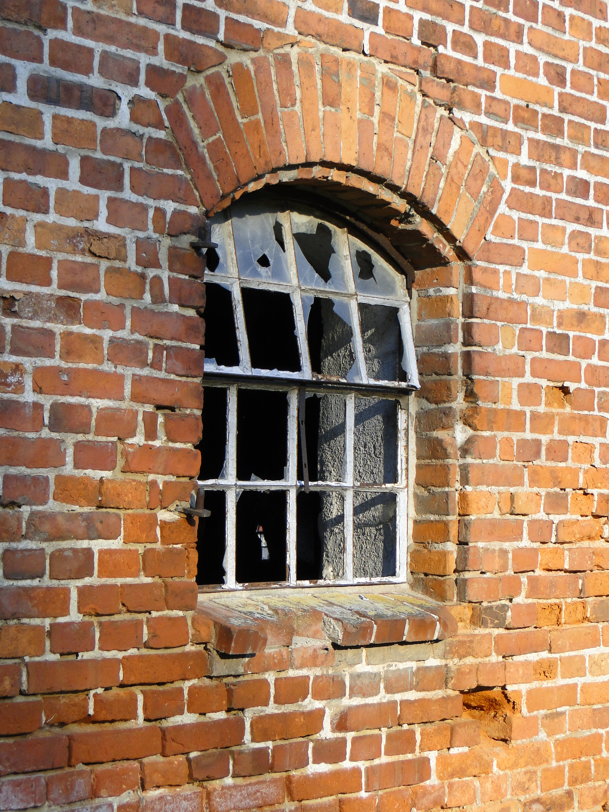 Window naer the barn near the manor house in Bernstorf, district Nordwestmecklenburg, Mecklenburg-Vorpommern, Germany